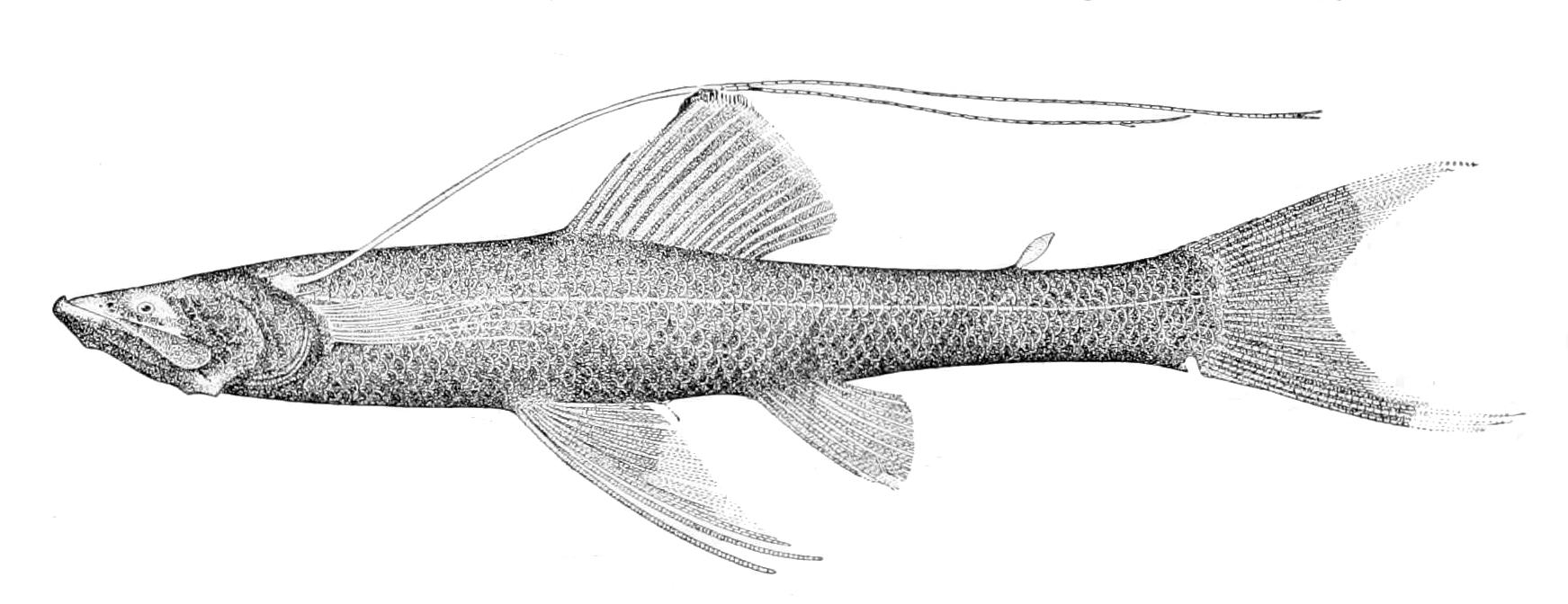 Bathypterois atricolor